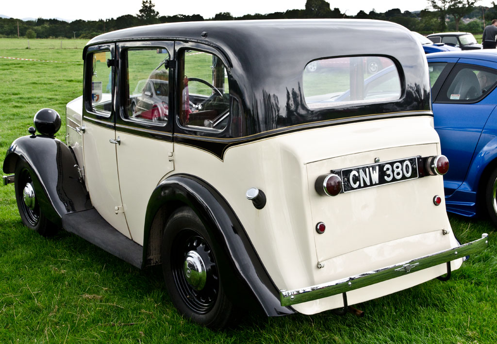 Wolseley Wasp 1935(DVLA) first registered 14 August 1935, 1073 cc St Asaph Classic Car Show 16/09/2012